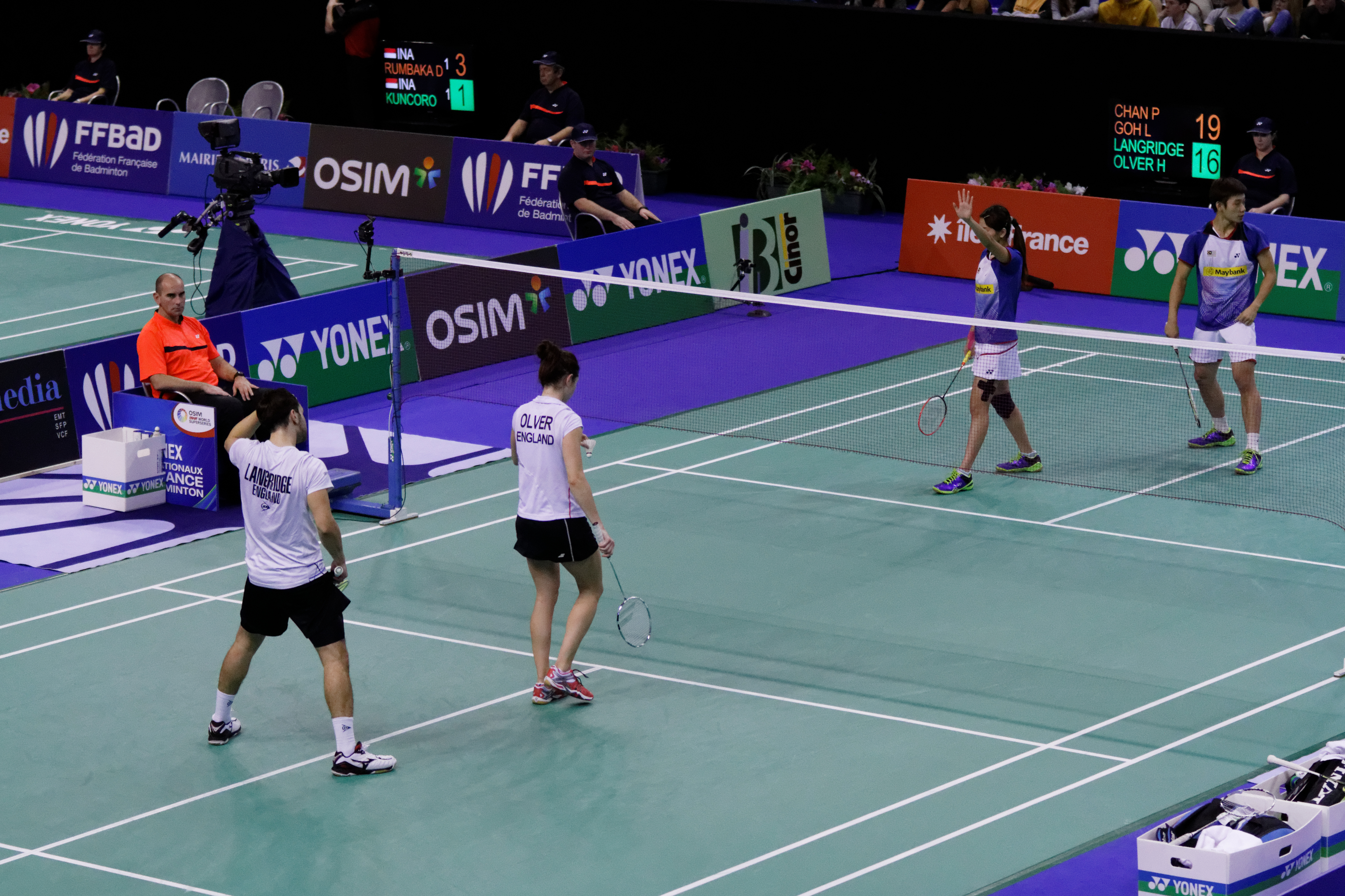 2013 French open. Mixed's doubles eightfinal. Chan Peng Soon and Goh Liu Ying vs Chris Langridge and Heather Olver.